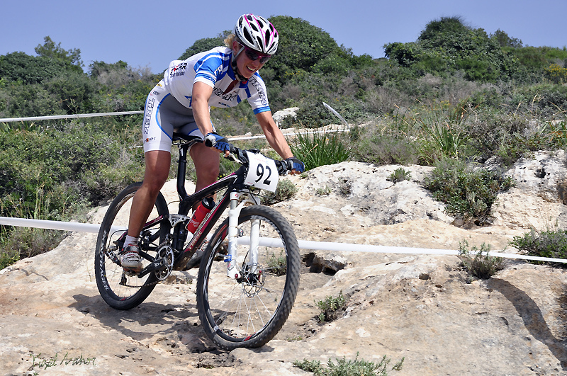 European Championship Mountain Bikes - Haifa 2010.